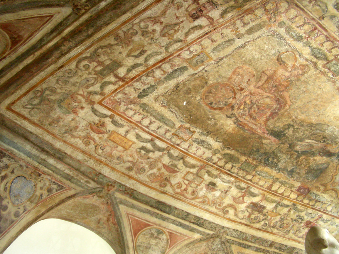 Italy, Latium, Rome's province, Palestrina. Palazzo Colonna Barberini, fresco on an interior vault